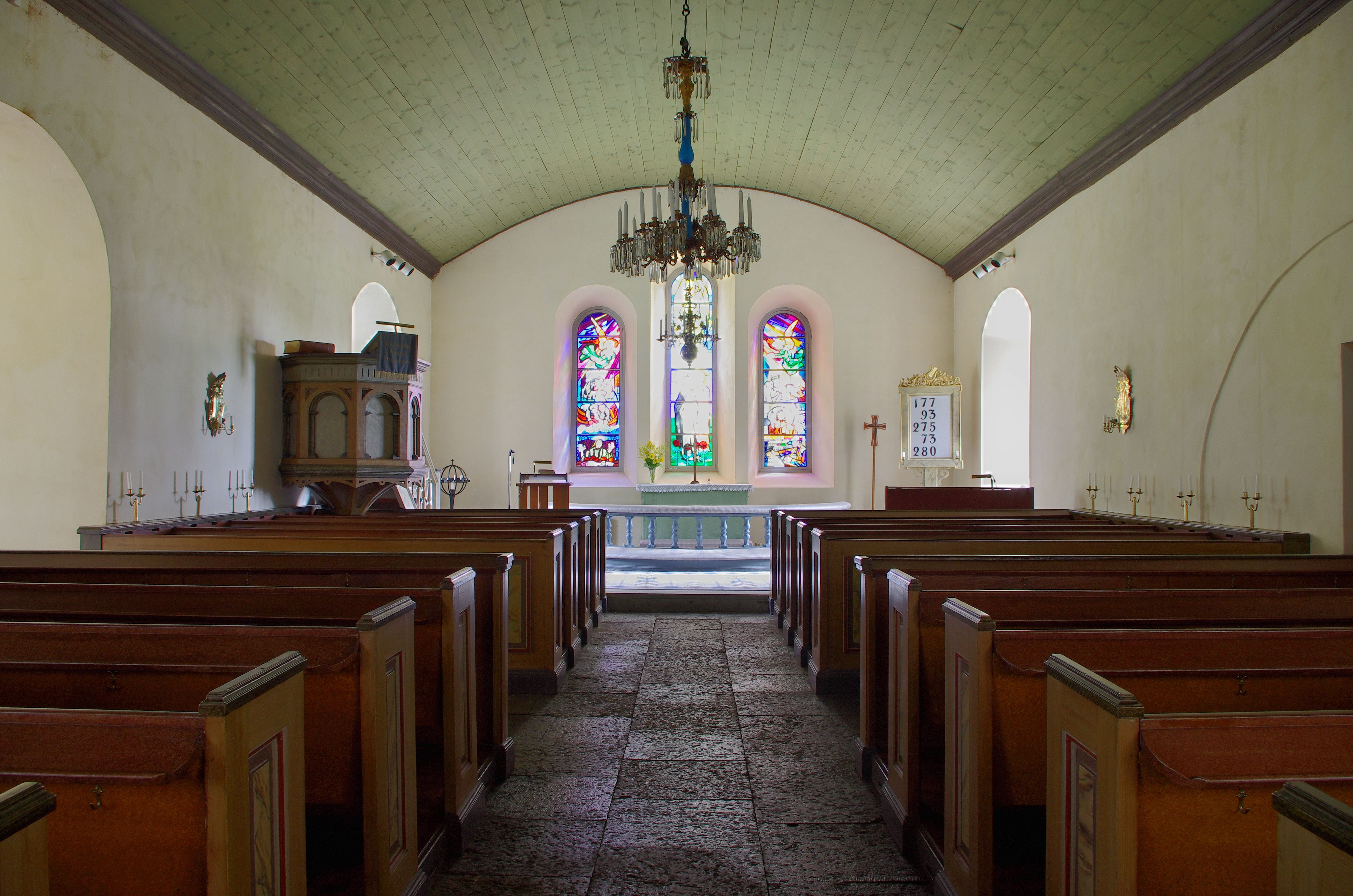 Öglunda kyrka (swedish:Öglunda church) in Valle hundred in Västergötland and Skara municipality in Västragötaland county, Sweden.